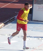 Libyan footballer. "I took this photo on 17-1-2006 during the match between Al Ittihad & Al Ahli T by my sony p-200 camera"